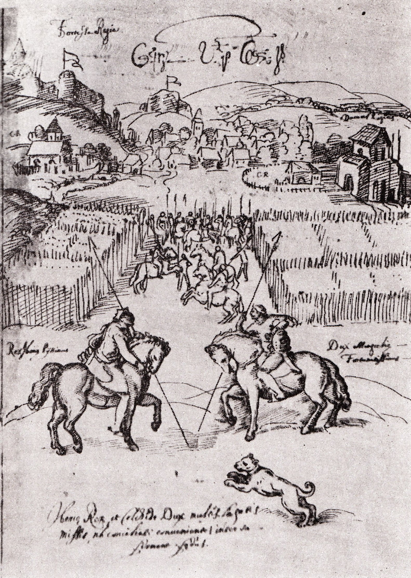 Reconciliation Levan Dadiani and the king of Imereti. A sketch by the Catholic missionaire Don Cristoforo De Castelli.